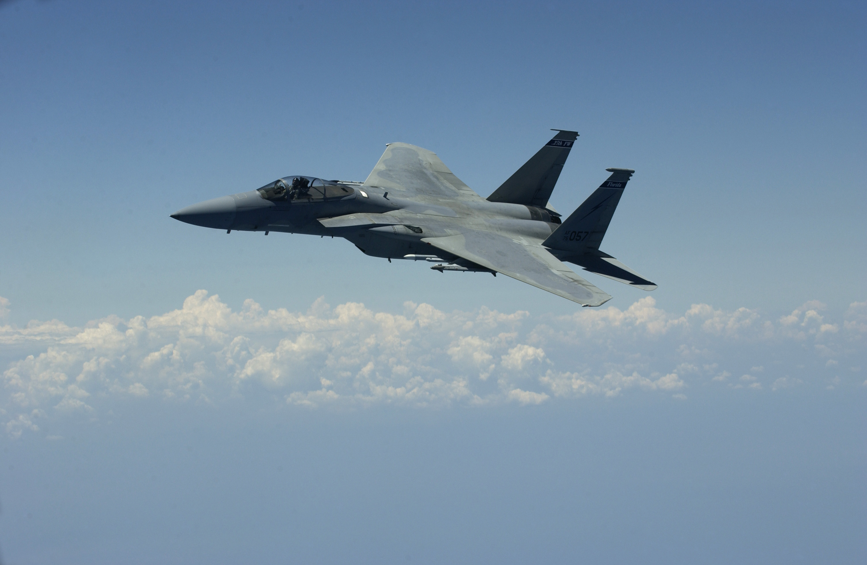 An F-15 assigned to the 125th Fighter Wing, Detachment 1, flies over the skies of southern Florida. U.S. Air Force Photo by Master Sgt. Shaun Withers.